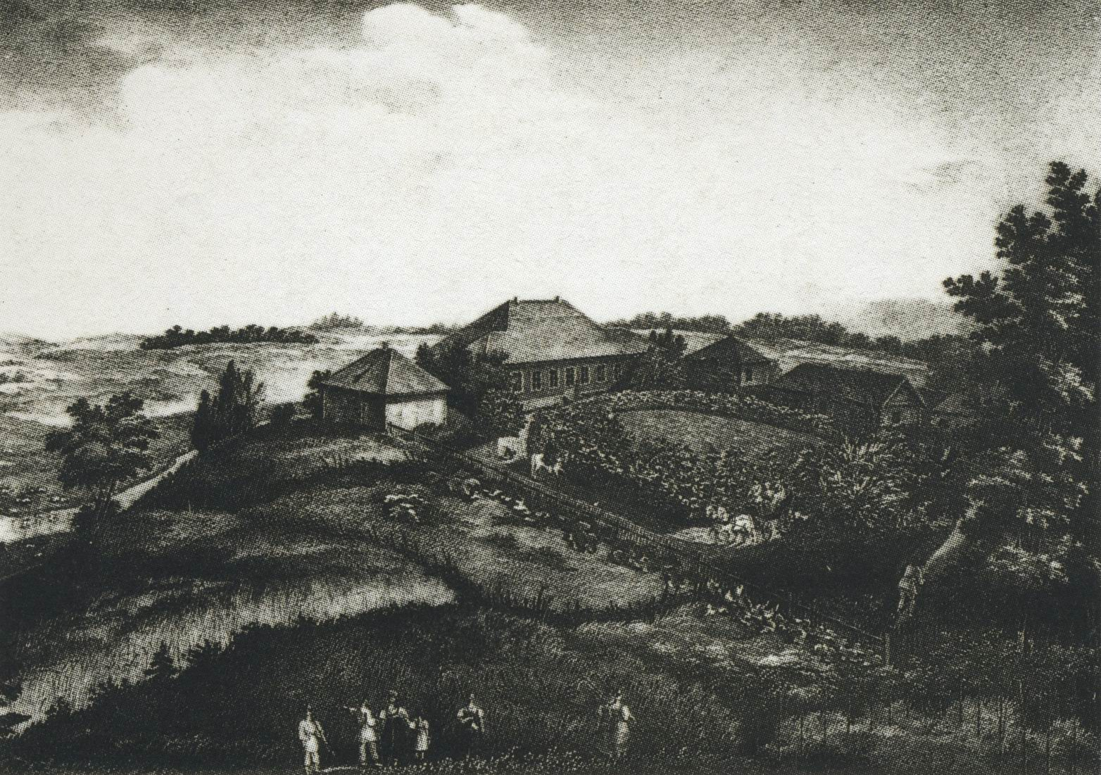 The village of Mikhailovskoye. 1837 Pskovskaya oblast.